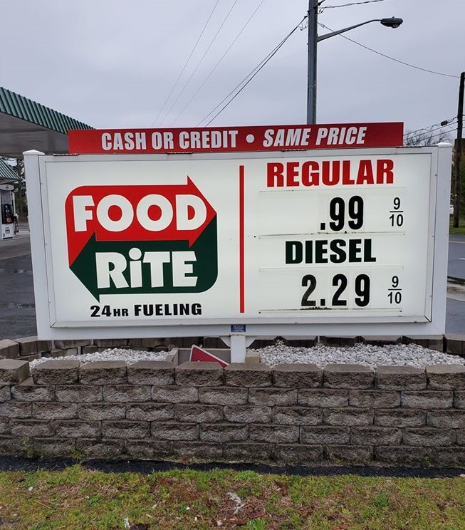 Signage for Food Rite located in Snow Hill, MD